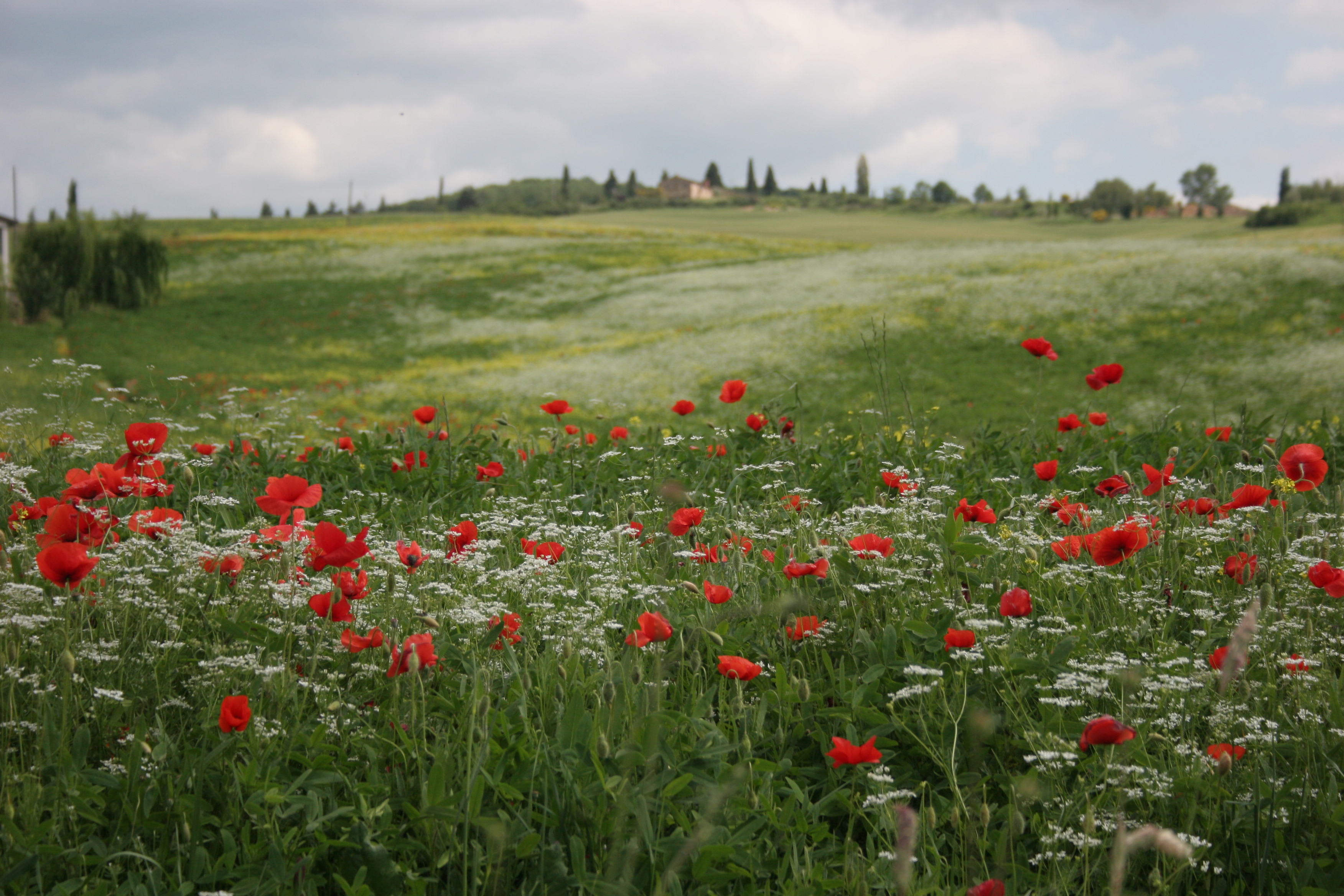 Meadow at Pienza, Toscana, Italy